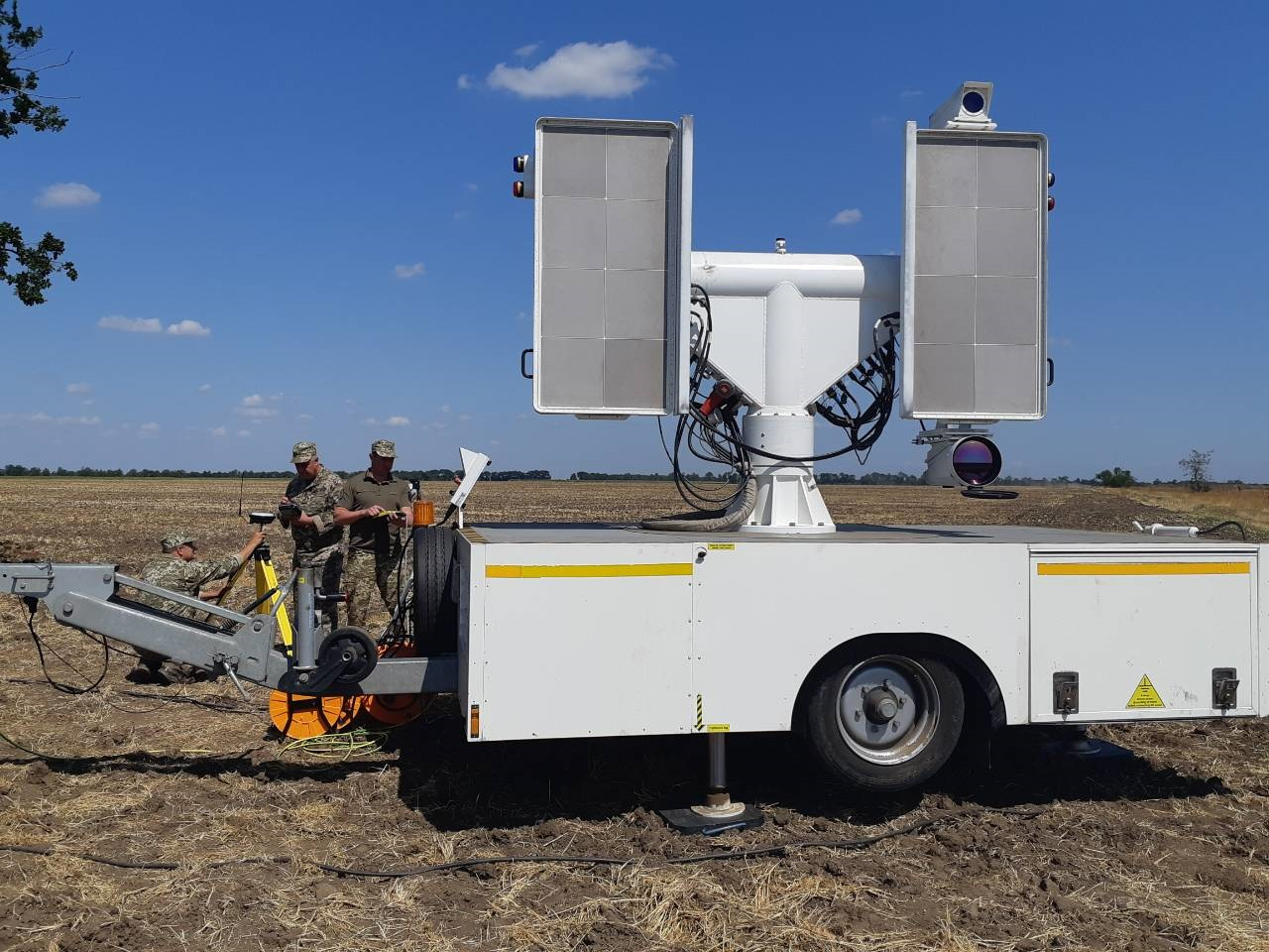 Danish Weibel Scientific A.S. MFTR-2100/40 radar during Vilkha-M tests, Ukraine 2019